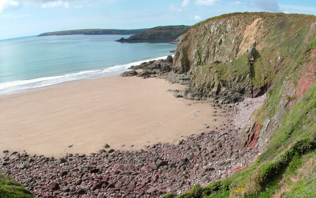 St. Ishmael's - Lindsway Bay. Beautiful beach. Taken looking west.